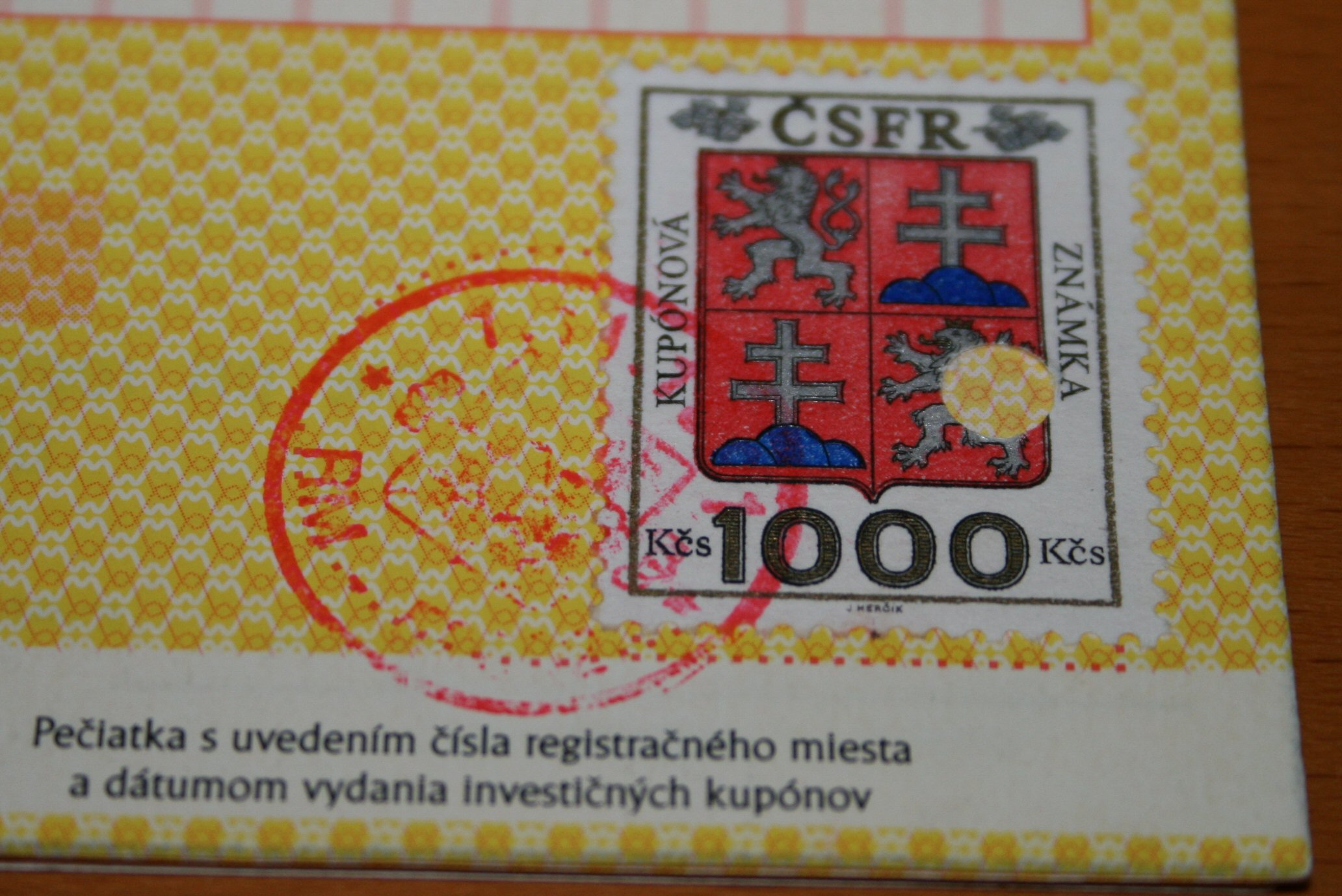 Stamp in privatization voucher used in Czechoslovakia